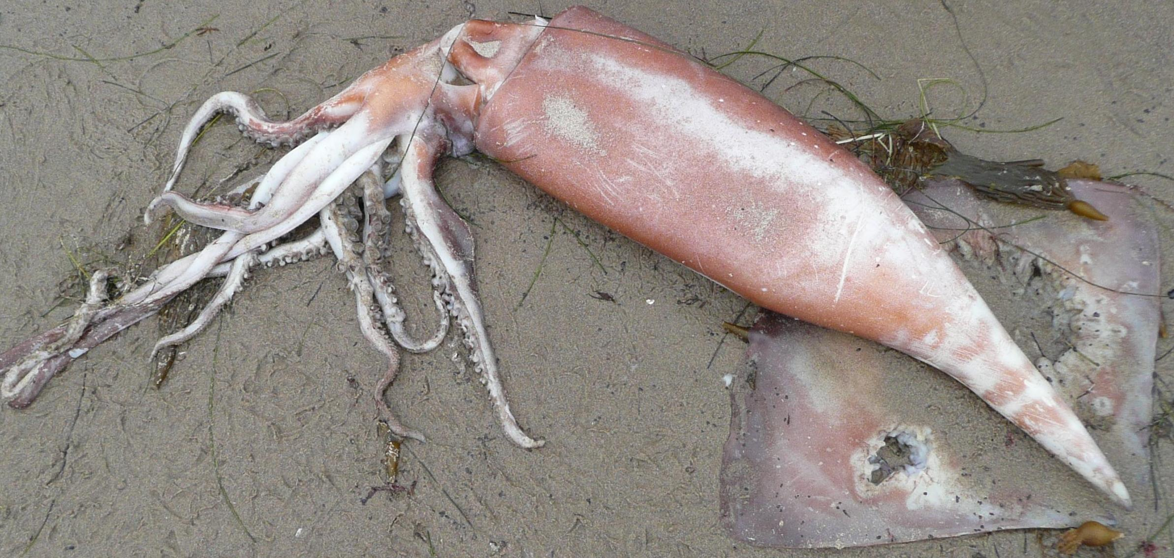 Dead squid.